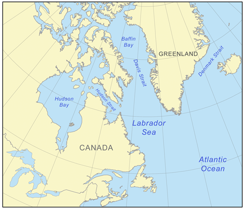 Map of the Labrador Sea, with Canada marked as well as its border with the US.